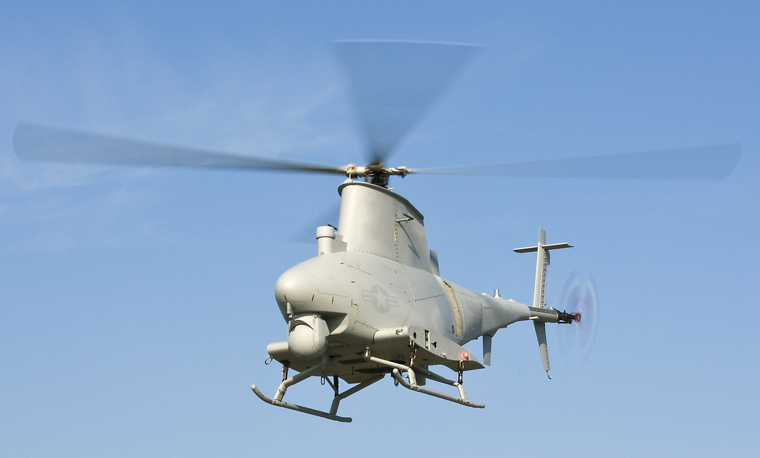 110930-N-JQ696-401 PATUXENT RIVER, Md. (Sept. 30, 2011) An MQ-8B Fire Scout unmanned aerial vehicle (UAV) successfully completes the first unmanned biofuel flight at Webster Field. The aircraft flew with a combination of JP-5 aviation fuel and plant-based non-food source camellia. Fire Scout is the seventh and final aircraft to demonstrate the versatility of biofuel through its use in all facets of naval aviation. (U.S. Navy photo by Kelly Schindler/Released)